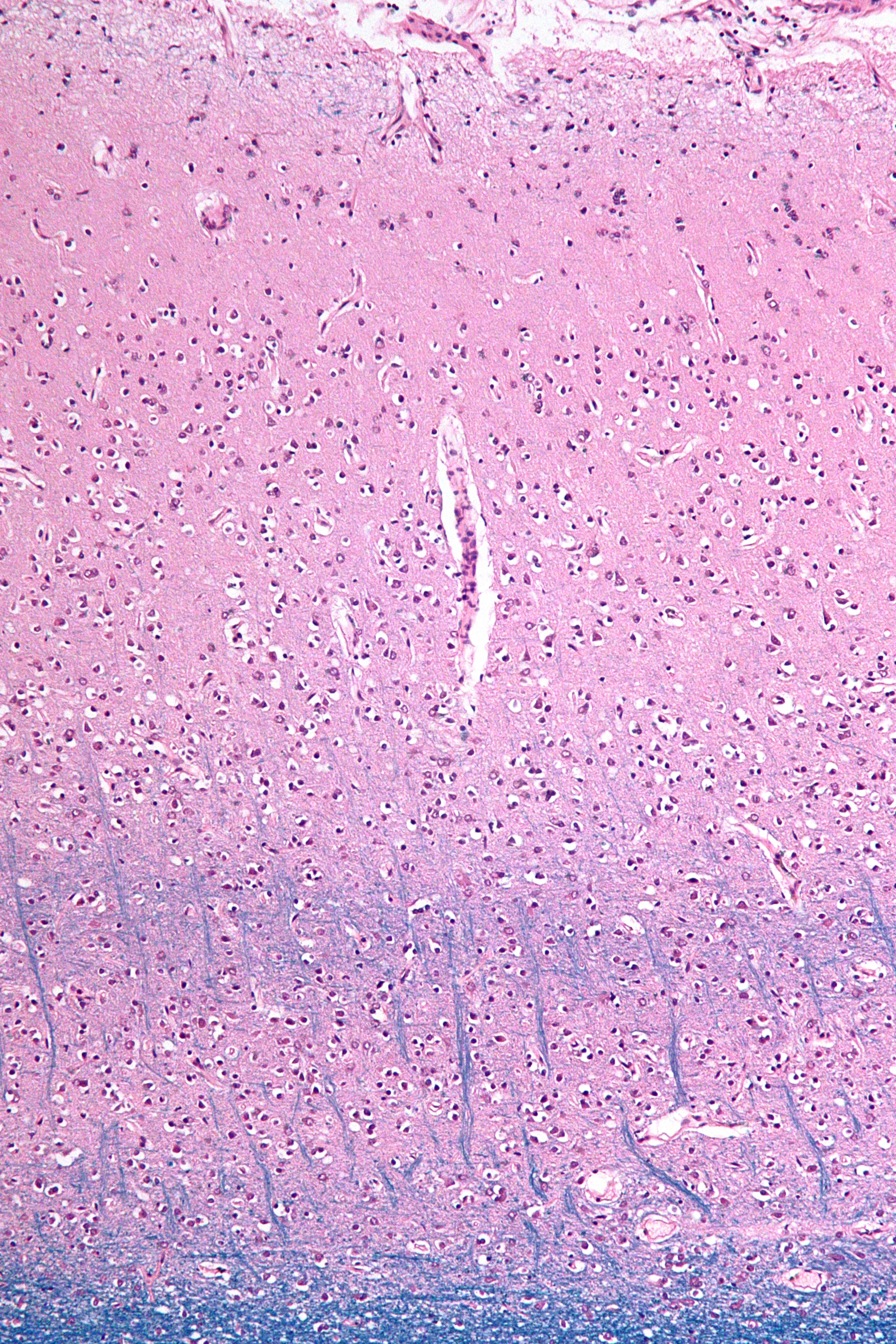 Intermediate magnification micrograph of visual cortex showing the bands of Baillarger / line of Gennari. LFB stain. Related images Different case - low mag. Drawings of the cerebral cortex.